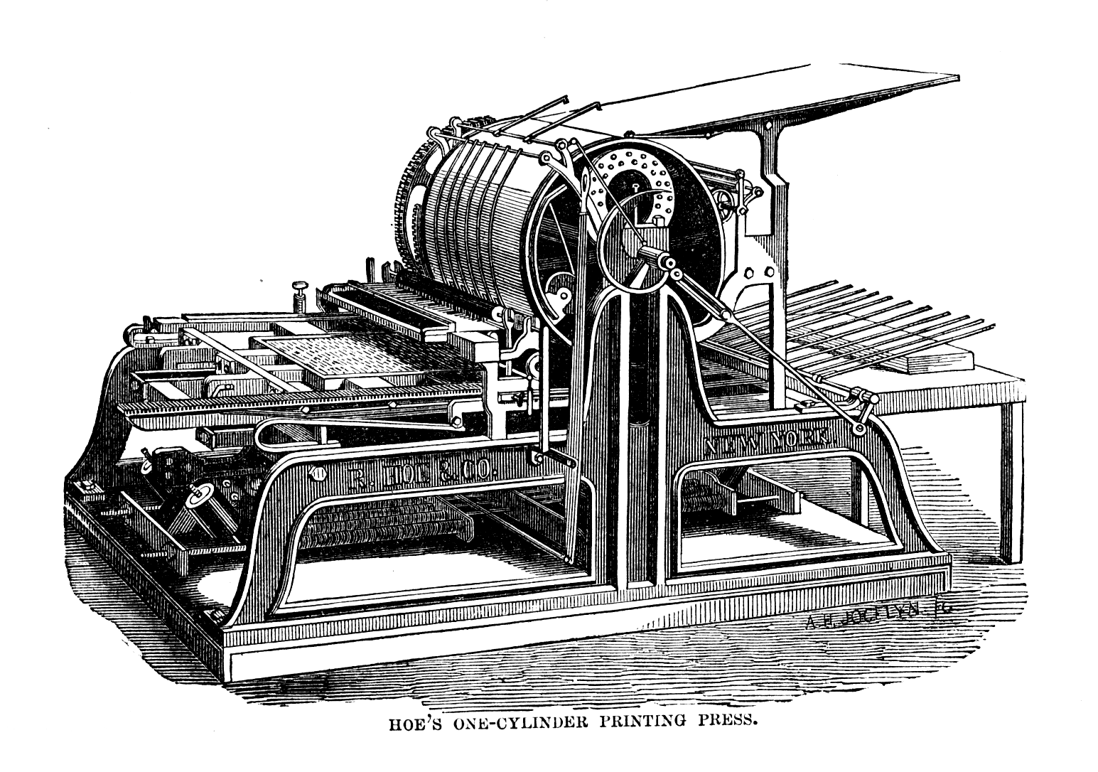 Richard March Hoe's printing press—one cylinder design